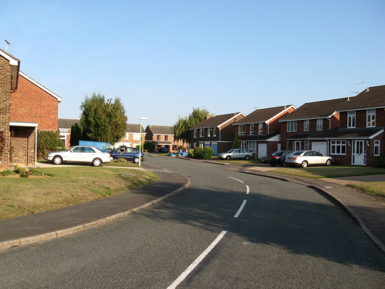 Typical open-plan layout of new houses in Capel St. Mary, Suffolk